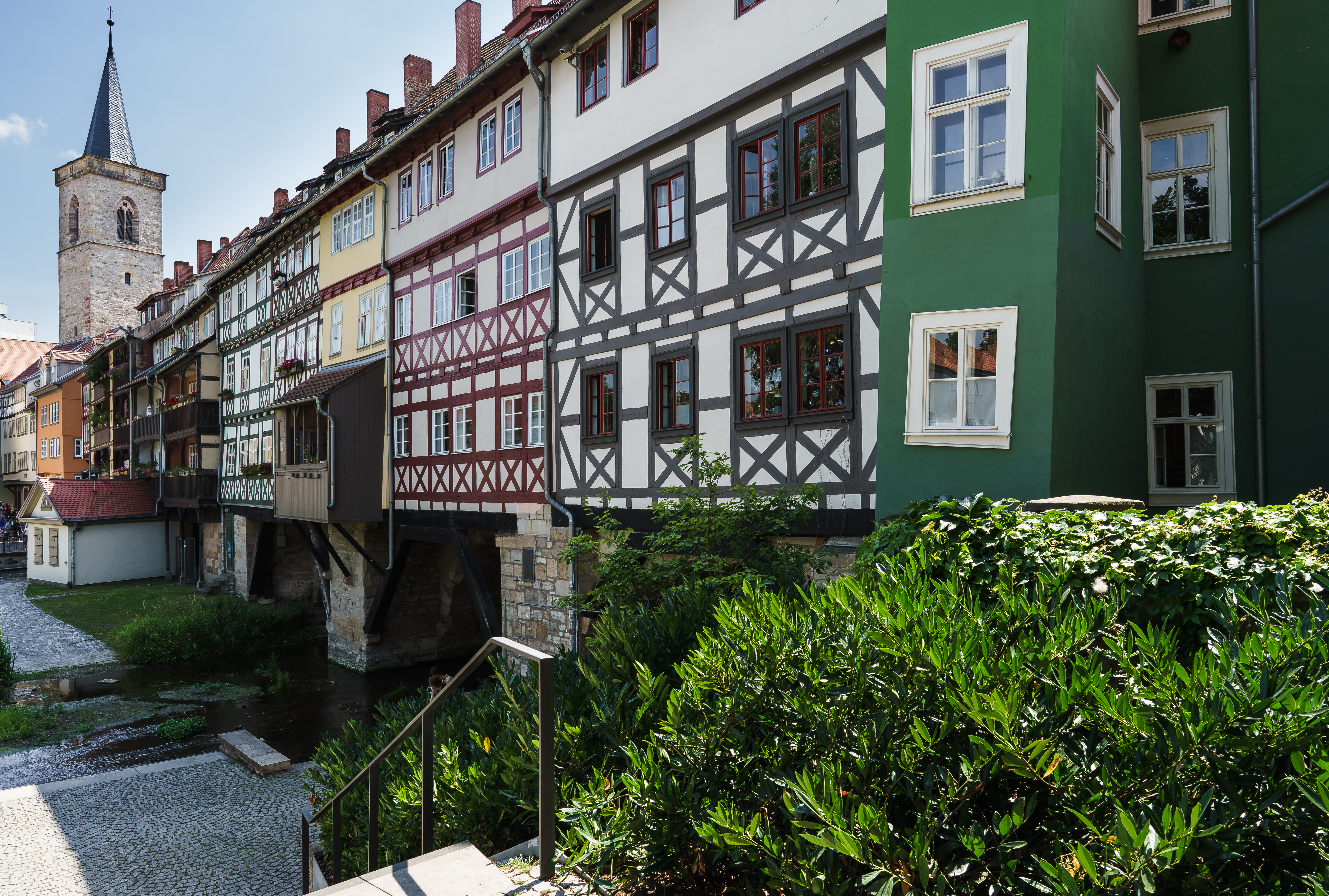 Krämerbrücke and Ägidienkirche in Erfurt, capital of Thuringia, Germany